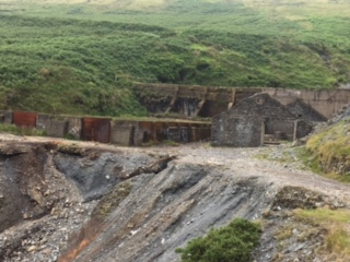 The washing floors of the Great Snaefell Mine